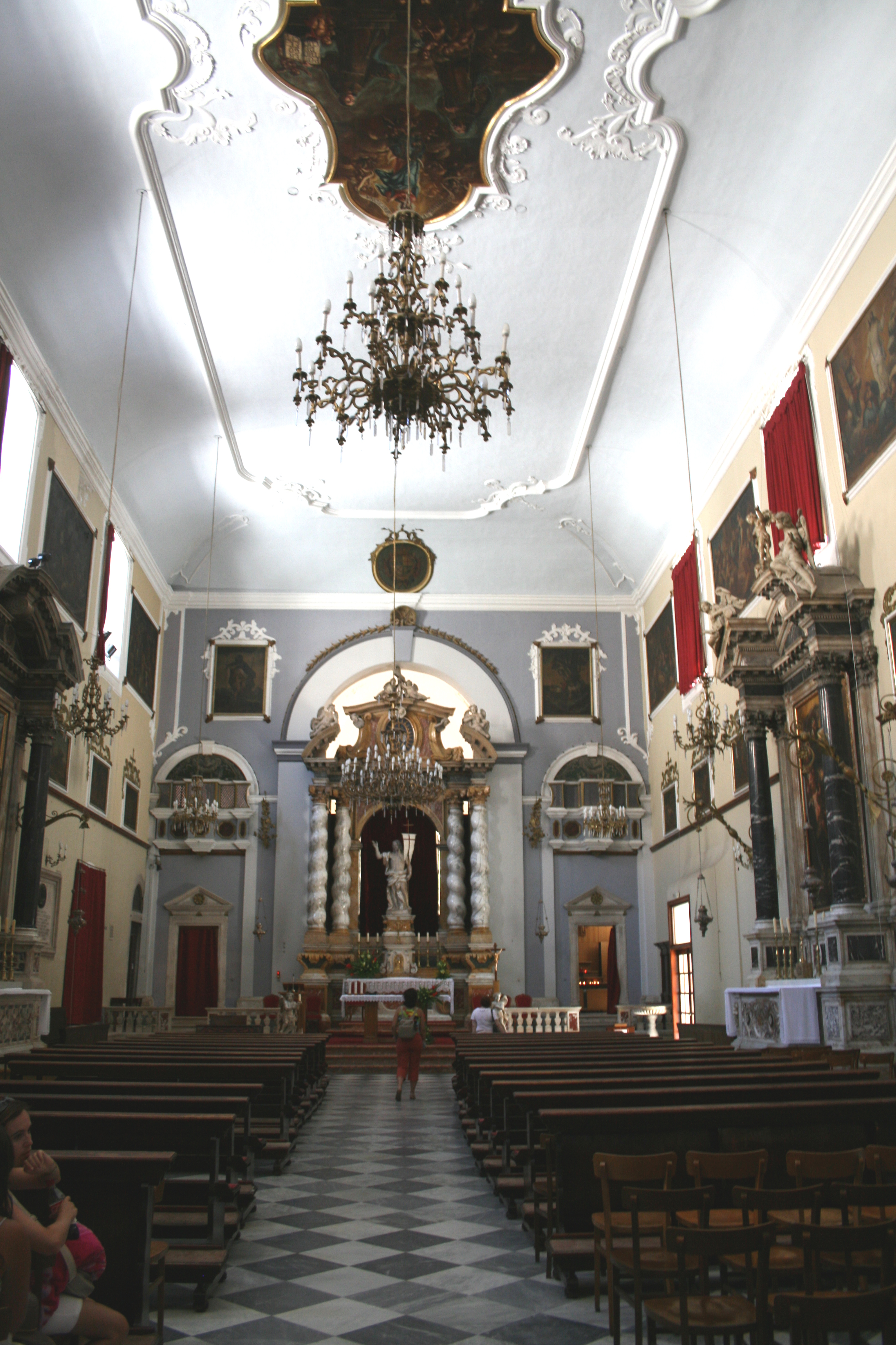 Església del convent franciscà de Dubrovnik.